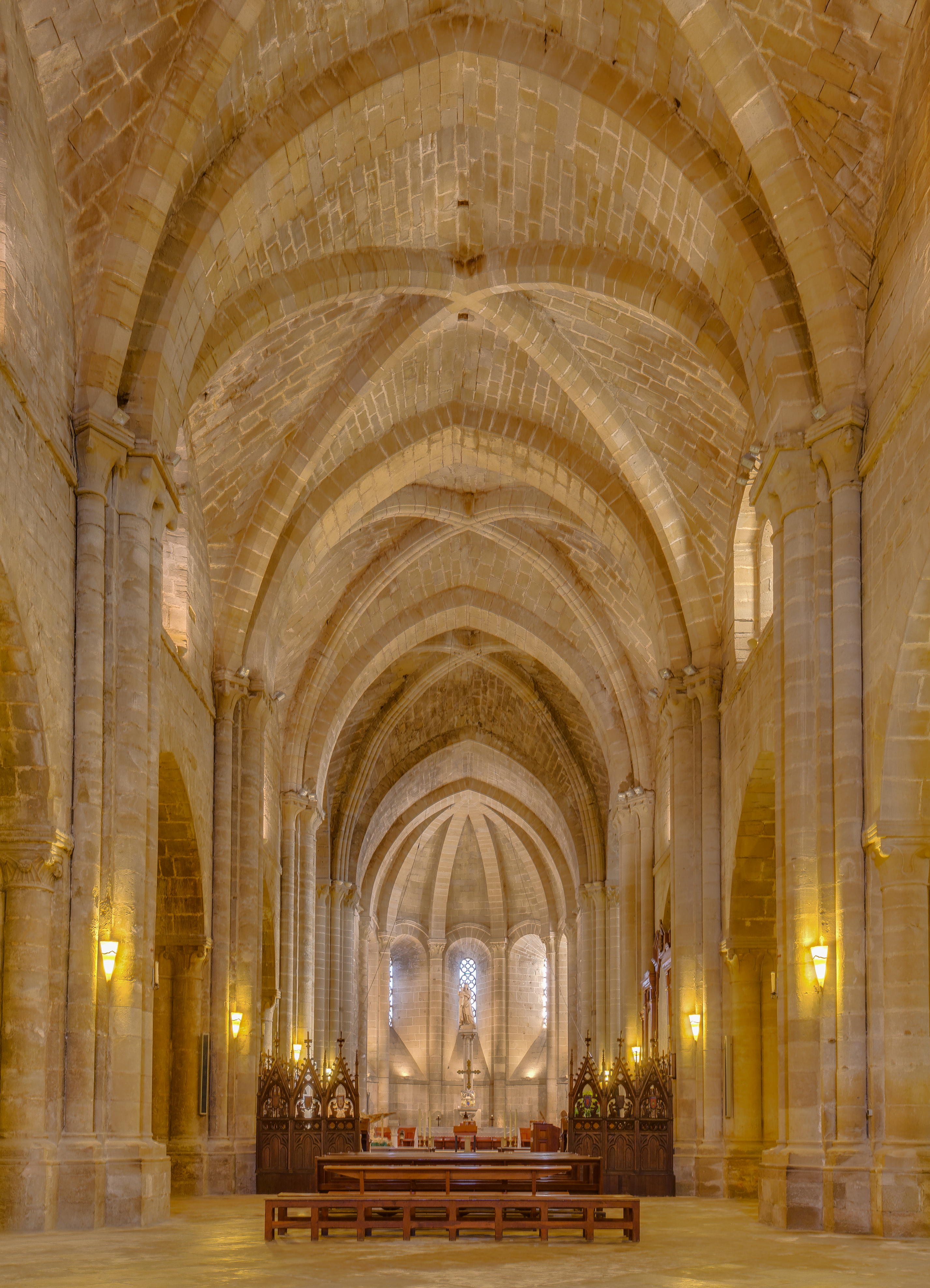 Monastery of la Oliva, Carcastillo, Navarre, Spain